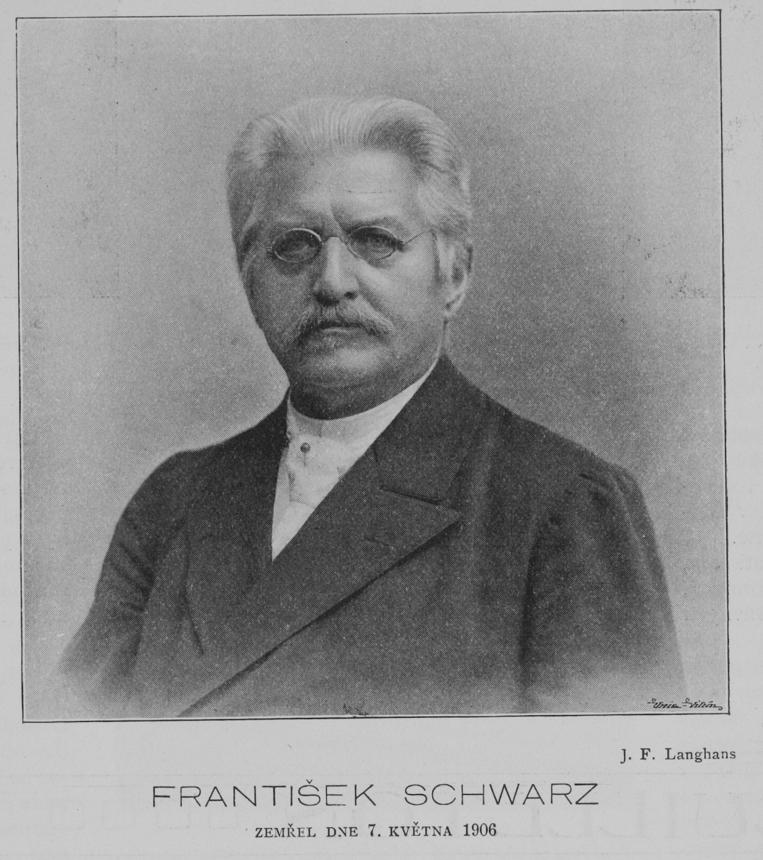 Photograph of František Schwarz (1840 – 1906), Czech regional politician from Plzen, journalist and author of books on municipal administration.